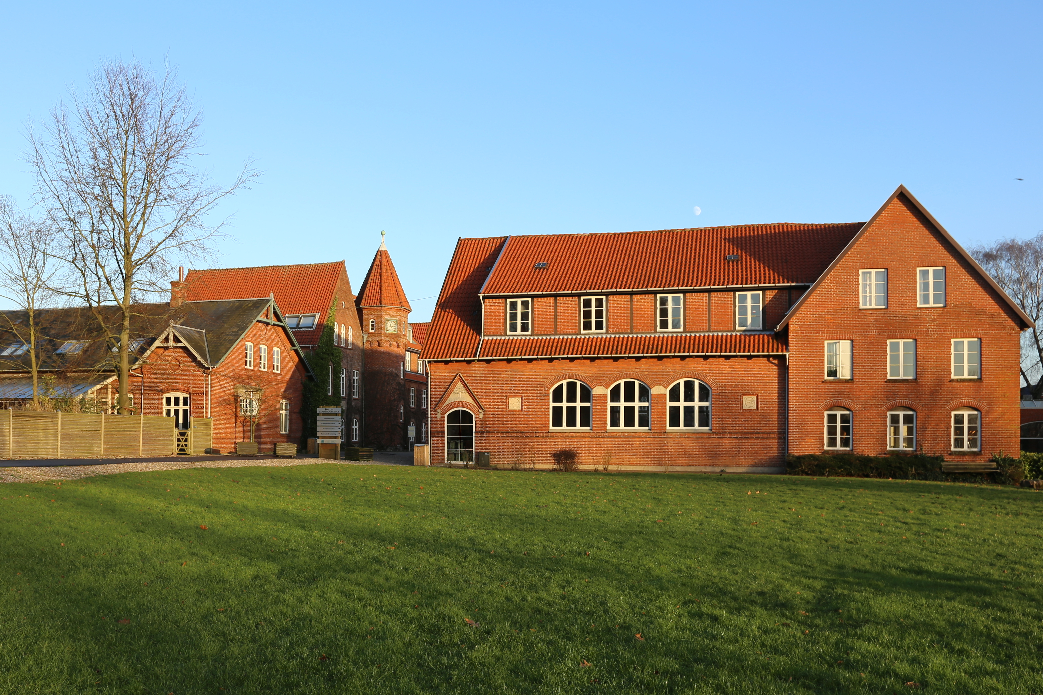 Dalum Agricultural College in Odense, Funen, Denmark.